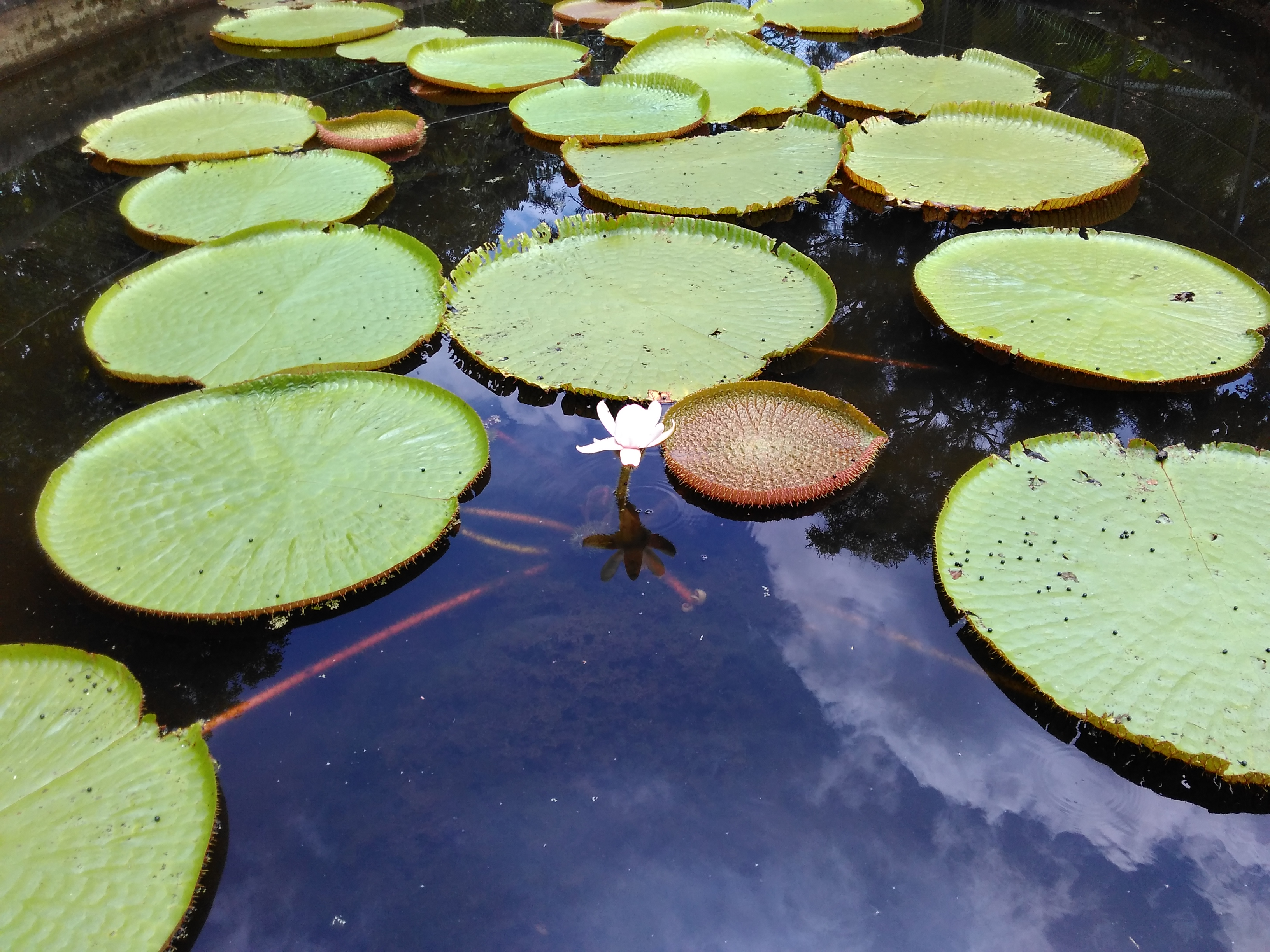 Giant Water Lily